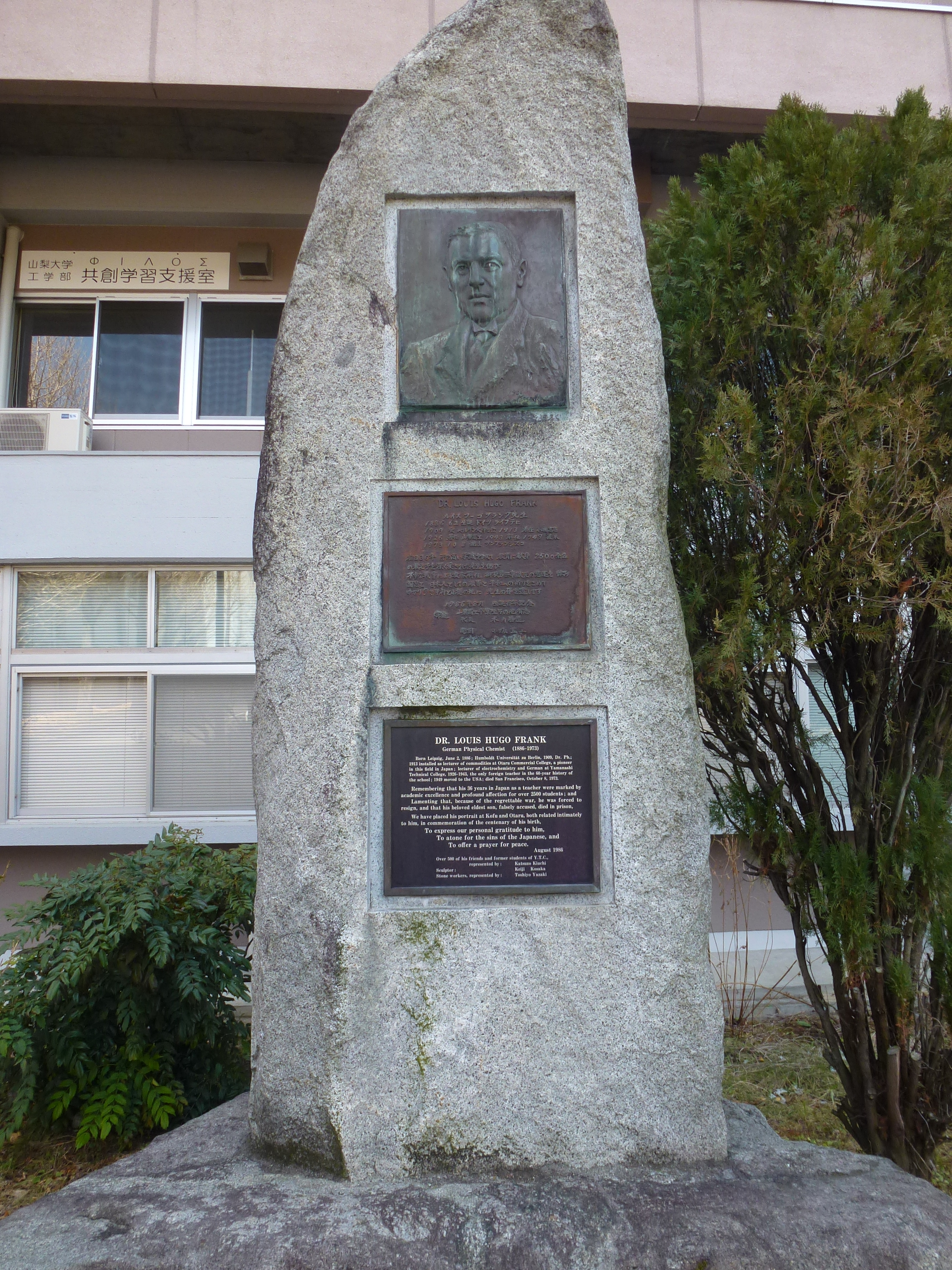 Statue spent by the grateful japanese students and friends to Dr. Louis.